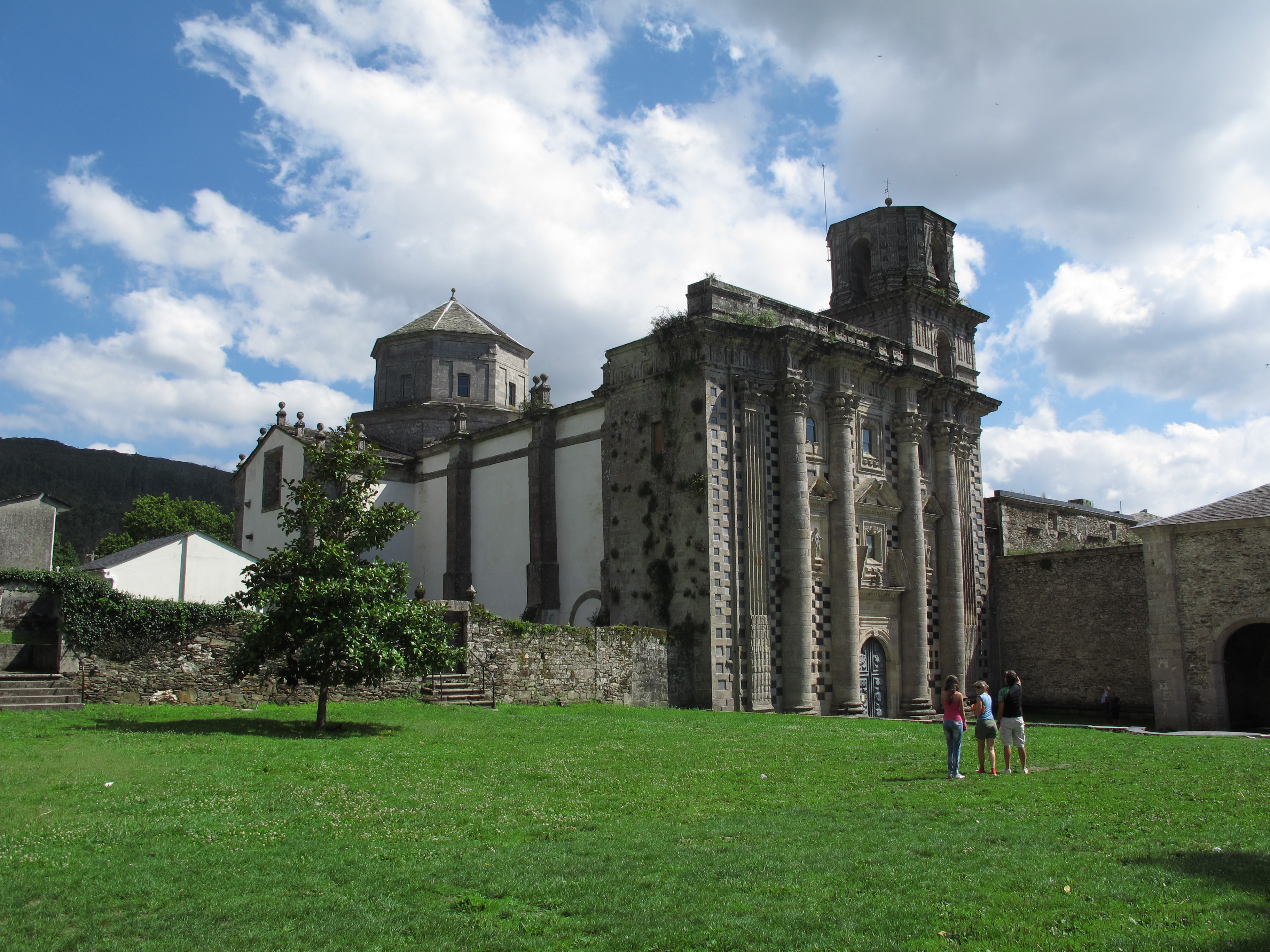 Monfero Abbey, a monastery in Galicia, Spain